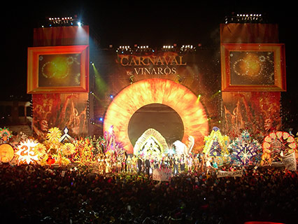 Gala of the 2008 carnival queens Vinaròs in the bullring